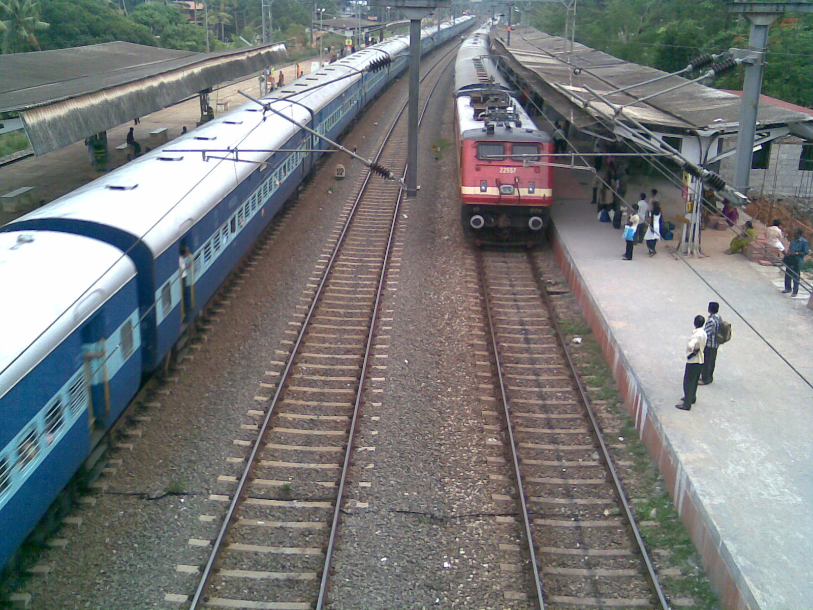 View of interior of the station